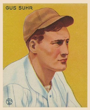 1933 Goudey baseball card of Gus Suhr of the Pittsburgh Pirates #206. PD-not-renewed.